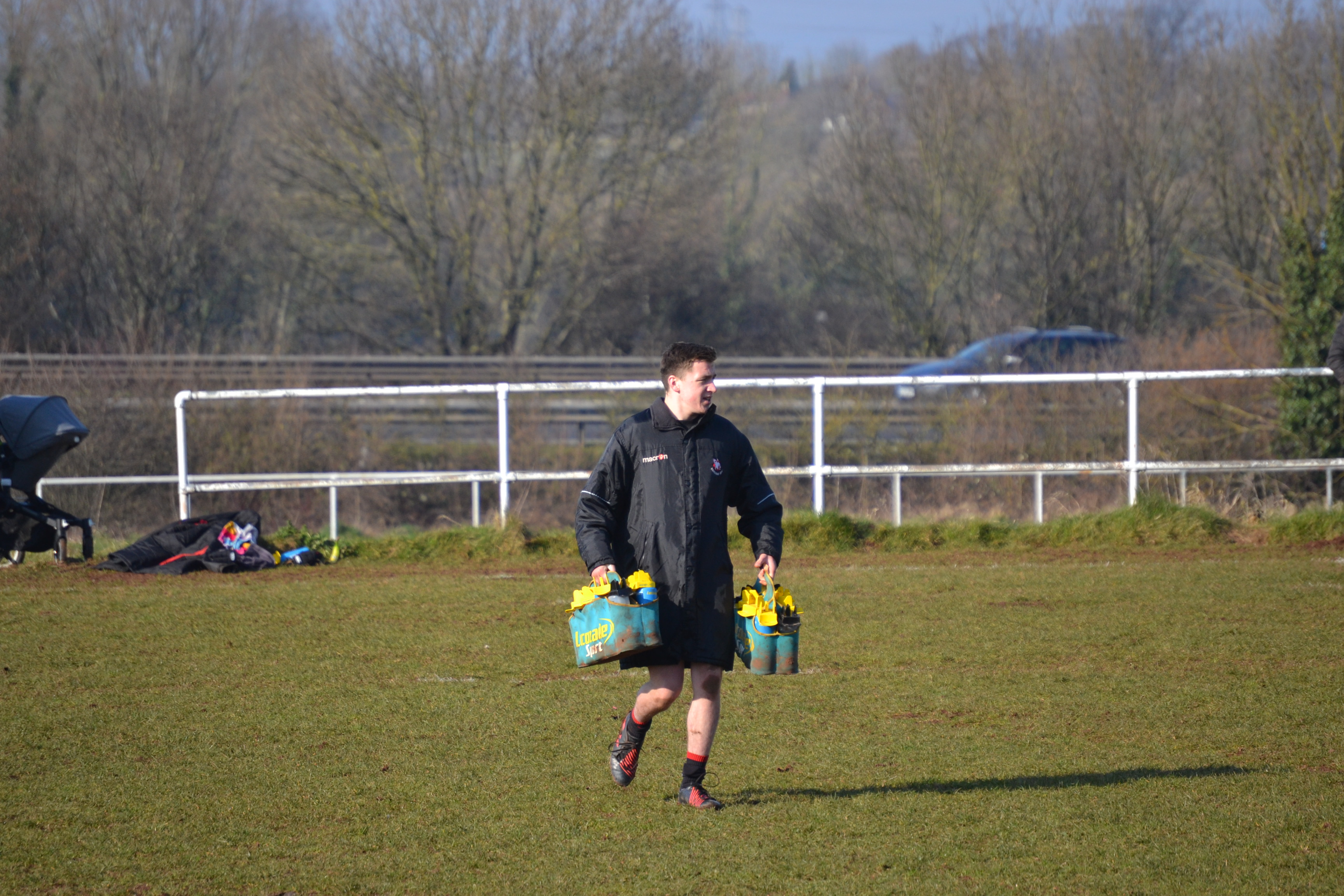 Pete Atherton acting as a waterboy for Gordano Sharks